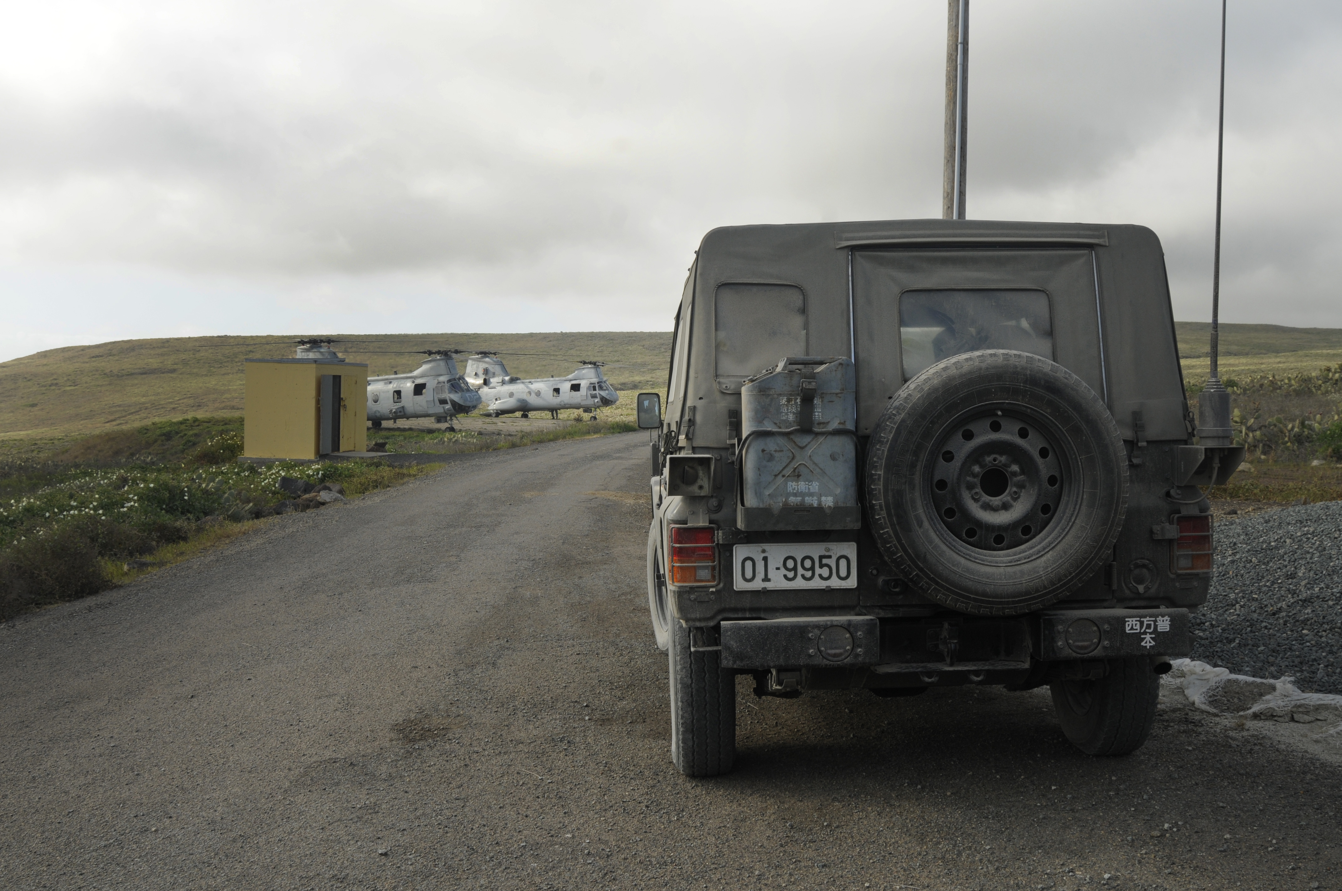 SAN CLEMENTE ISLAND, Calif. – A Japanese Ground Self Defense Force (JGSDF) truck parks, while two CH-46E, assigned to Marine Medium Helicopter Squadron (HMM) 364 "Purple Foxes" land, Feb. 12, during exercise Iron Fist 2012. This bilateral training exercise between U.S. Marines and the JGSDF is designed to increase interoperability and amphibious capabilities. International relationships strengthen U.S. Third and Seventh Fleets' ability to respond to crises and the U.S. and its allies and partners